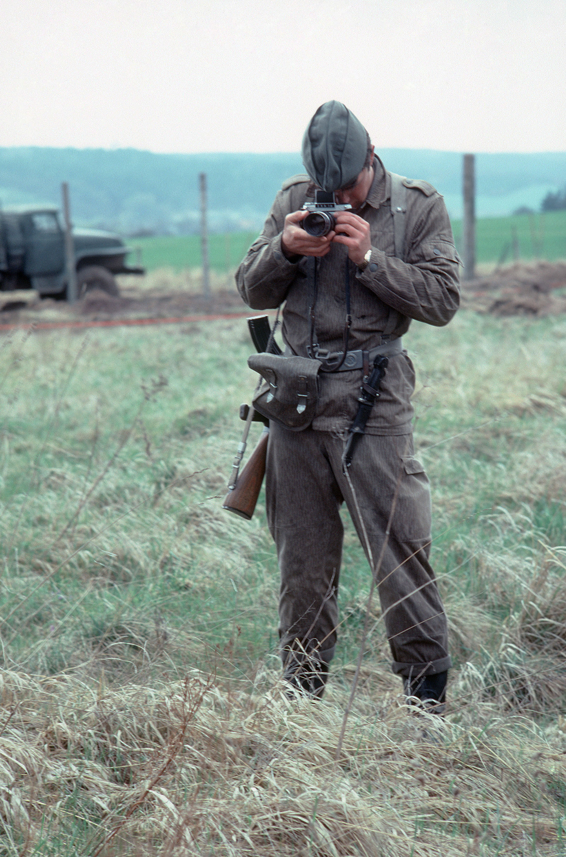 East German "Border scout" (Border recconnaissance platoon) of the GDR Border Troops, here taking a photograph of US Army activities across the inner German border.